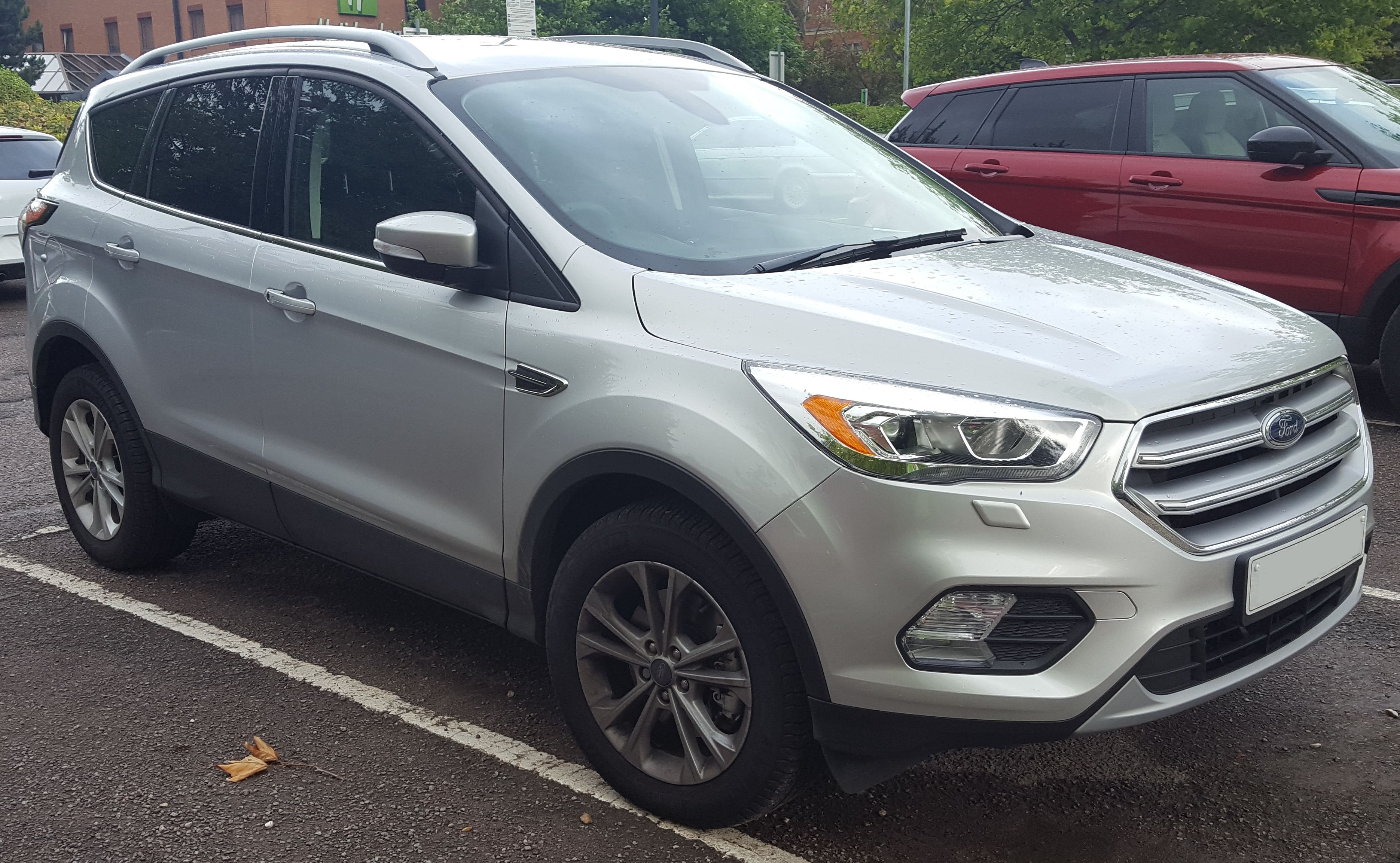 2017 Ford Kuga Titanium TDCi 2.0 Front Taken in Leamington Spa